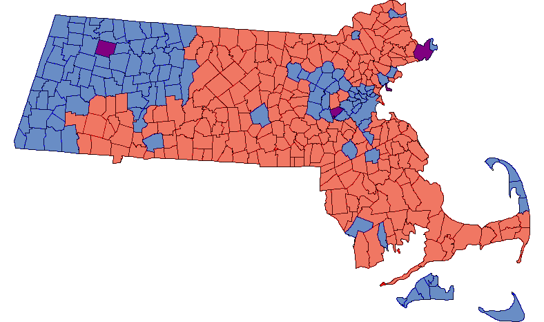 The cities and towns colored red voted for Brown, blue for Coakley; cities and towns colored purple were towns where neither candidate won more than half of the vote